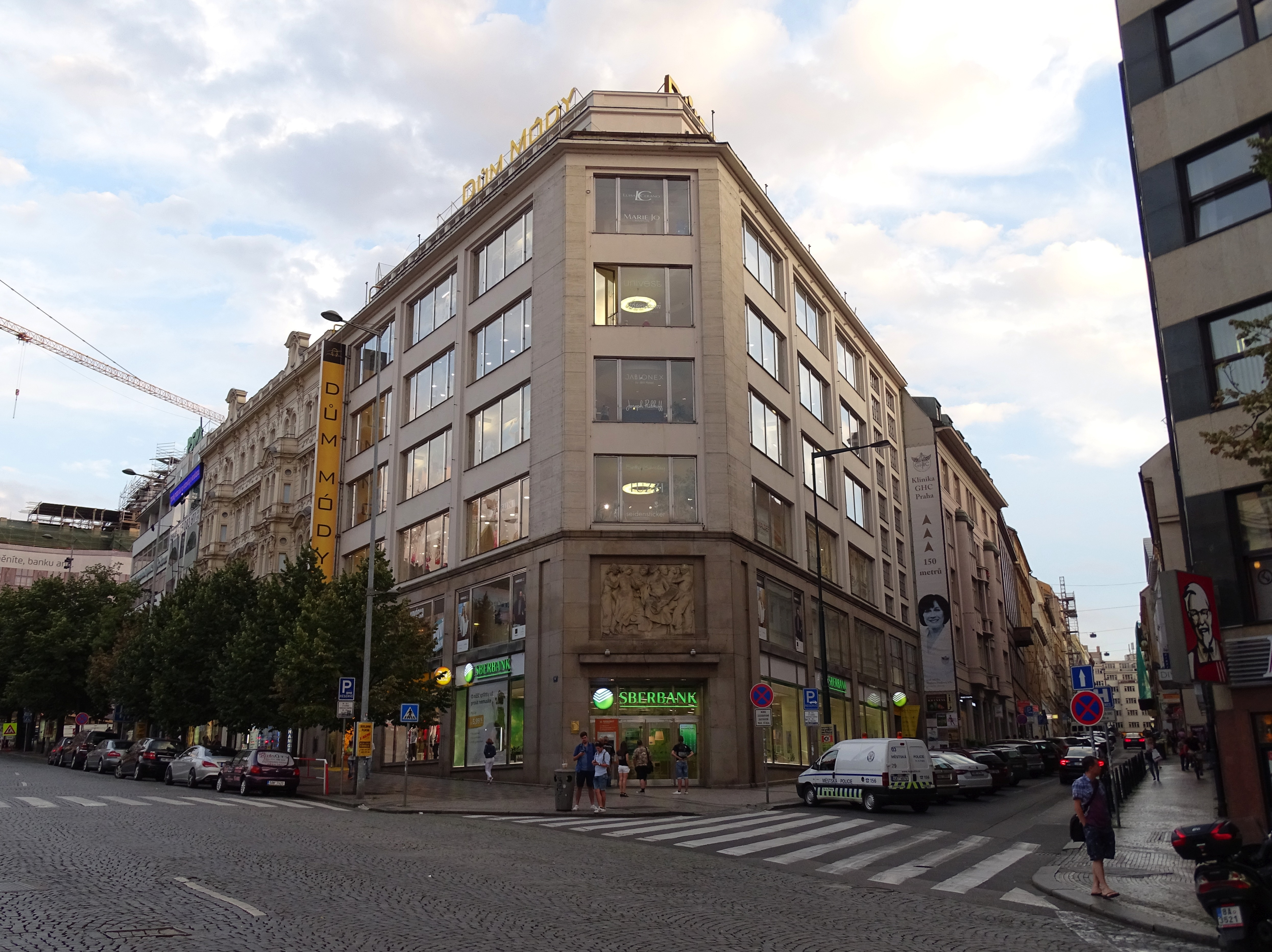 Prague-New Town, Czech Republic. Václavské náměstí 804/58, Krakovská 804/26, Dům módy.